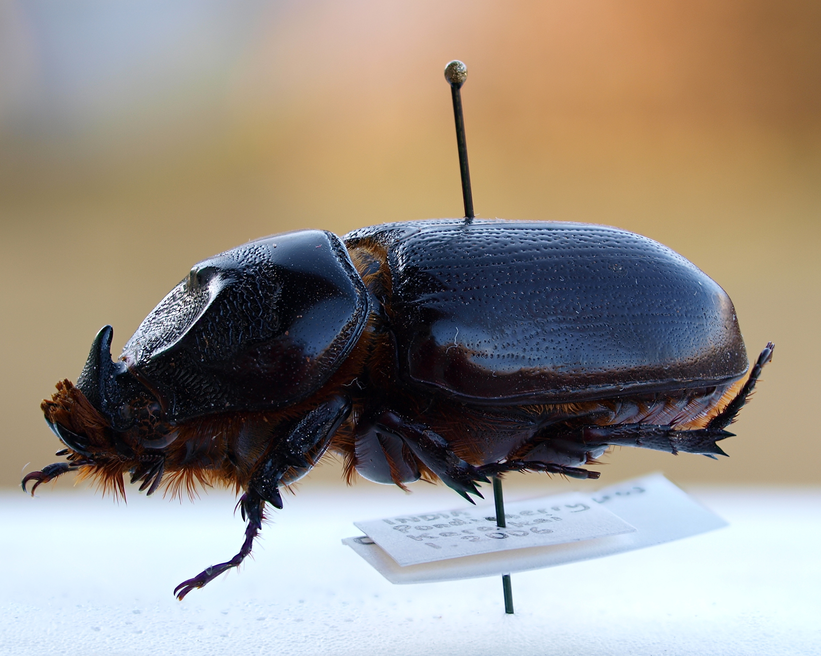 Oryctes rhinoceros, female